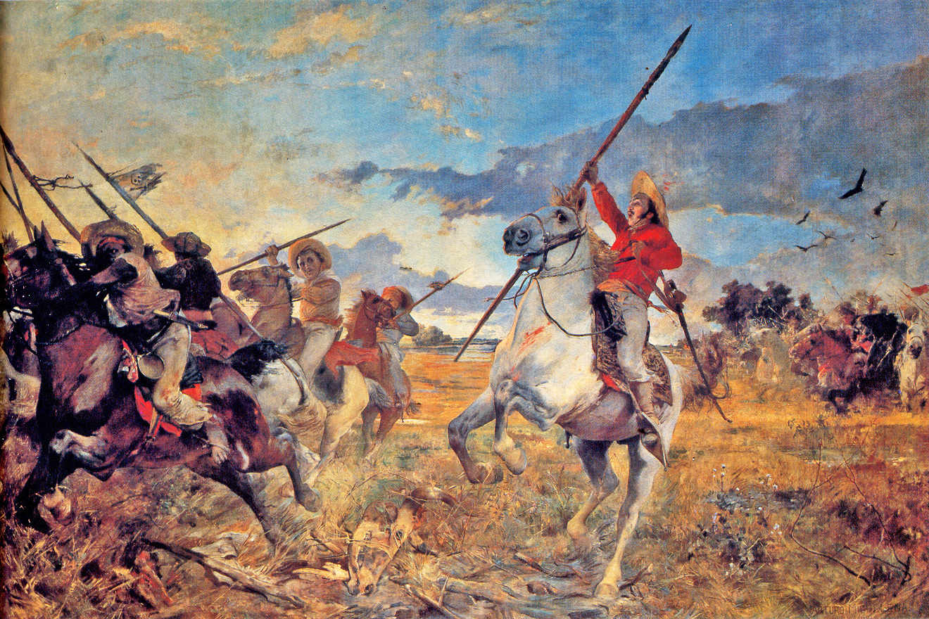 Arturo Michelena, "Vuelvan Caras".